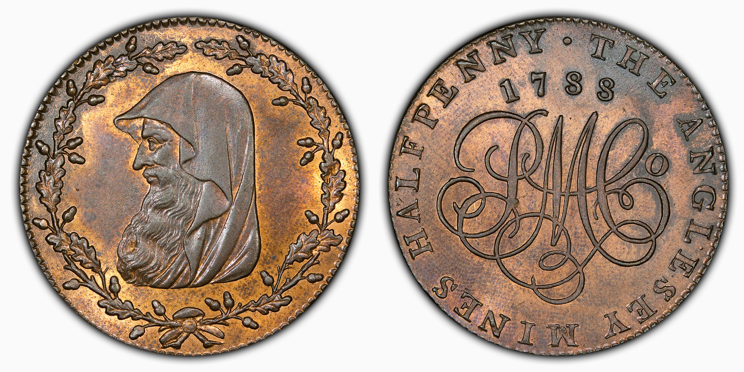 This is a composite image of the obverse and reverse of a Conder Token Halfpenny issued by the Parys Mine Company of Anglesey in 1788. The obverse features the well known and widely used image of a Druid. The reverse bears the cypher "PMCo" for Parys Mine Company, the date of 1788, and the legend "THE ANGLESEY MINES HALFPENNY". This token is indexed in Dalton and Hamer as Anglesey 275.